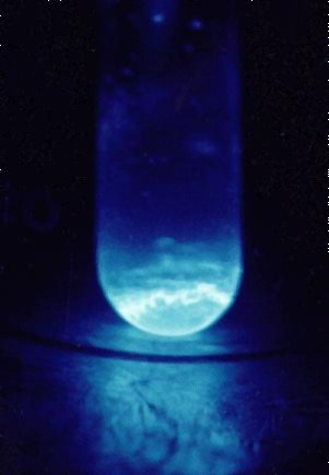 Quartz vial (9 mm diameter) containing ~300 micrograms of Es-253 solid. The illumination produced is a result of the intense radiation from Es-253, which alpha decays (6.6 MeV, 1000 watts/g) with a half-life of 20.5 days. The heat and radiation accompanying decay often generate detrimental effects in studies of Es.